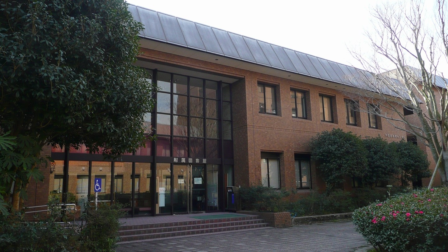 Library of National Institute of Fitness and Sports in Kanoya